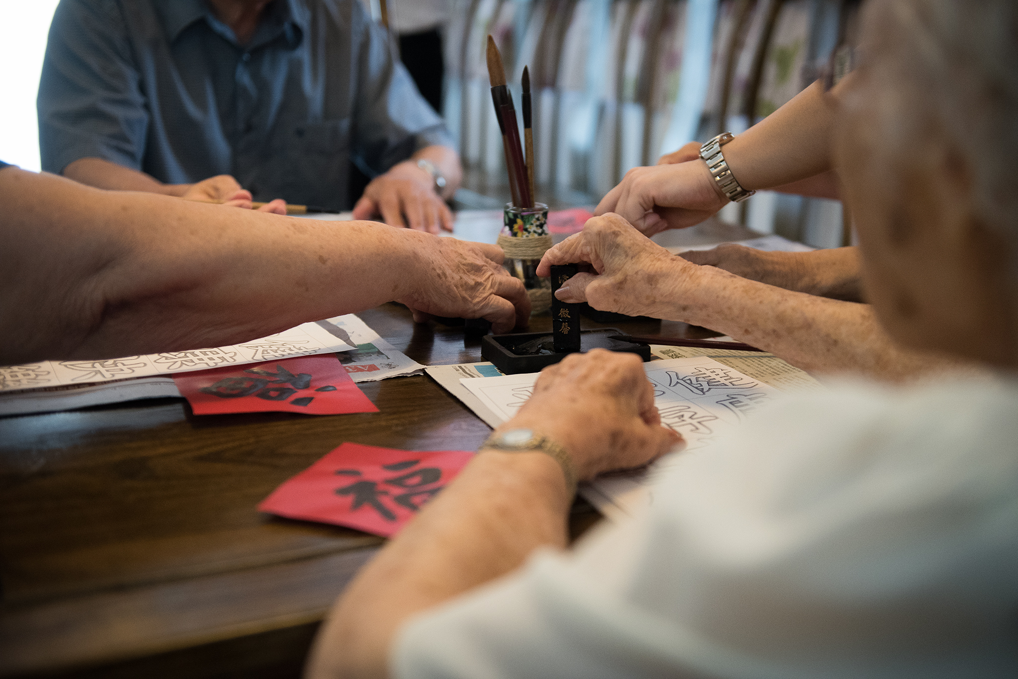 授權方式及範圍：中華民國總統府│政府網站資料開放宣告 Authorization Method & Scope: Office of the President, Republic of China (Taiwan) | Government Website Open Information Announcement